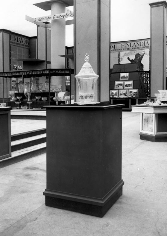 Barcelona world fair 1929 - Finnish section and Barcelona bowl made by Henry Ericsson